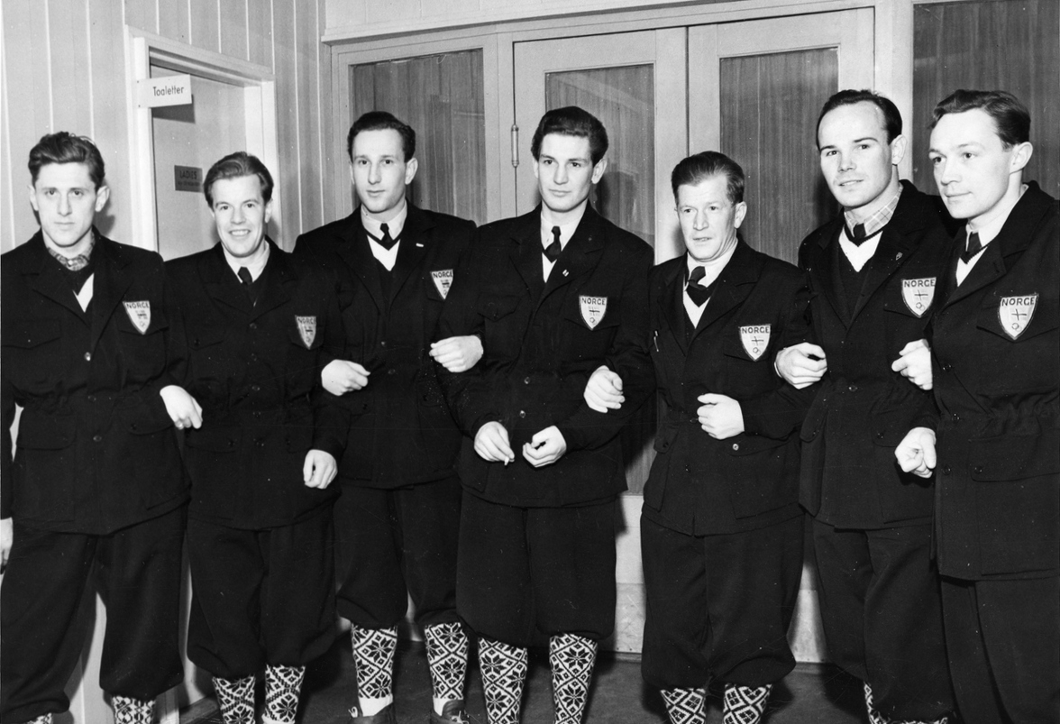 The Norwegian ski jumping team at the Olympics in St. Moritz in 1948. From the left: Petter Hugsted, Asbjørn Ruud, Arne Hoel, Christian Mohn, Birger Ruud, Georg Thrane, Thorleif Schjelderup.